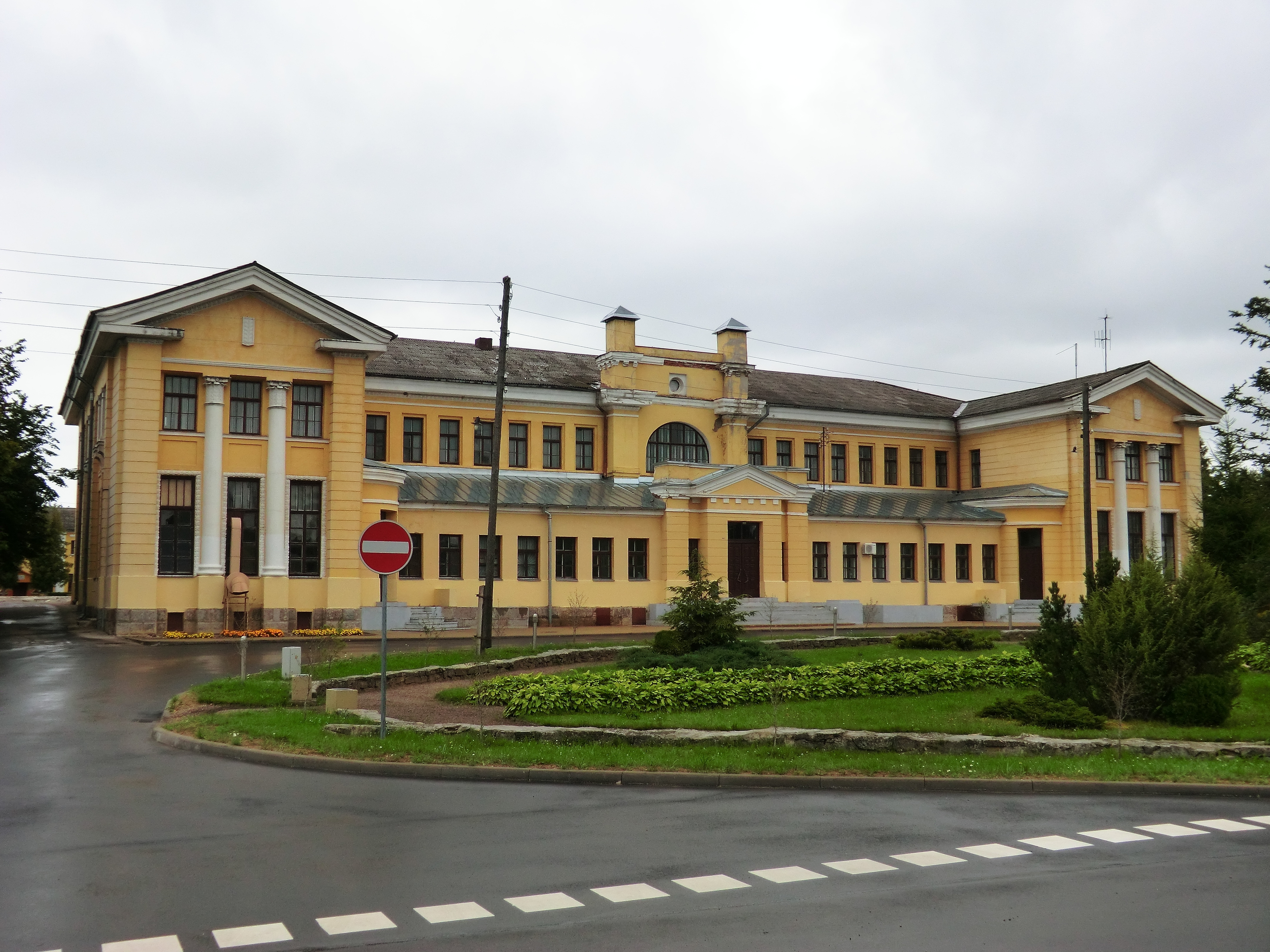 Gulbene railway stationLatviešu: Gulbenes stacija